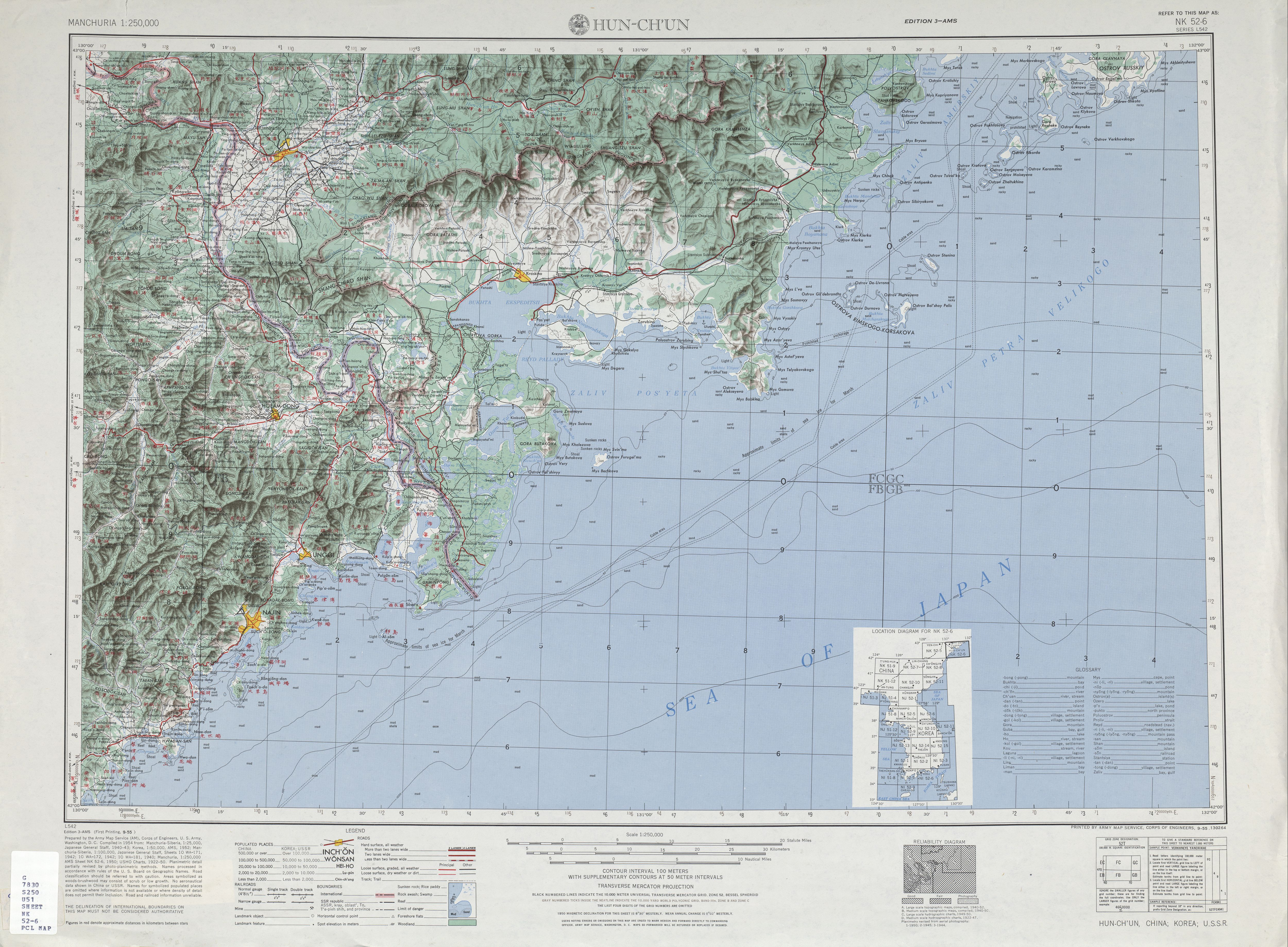 Map of Hunchun (Hun-ch'un) area, in Jilin